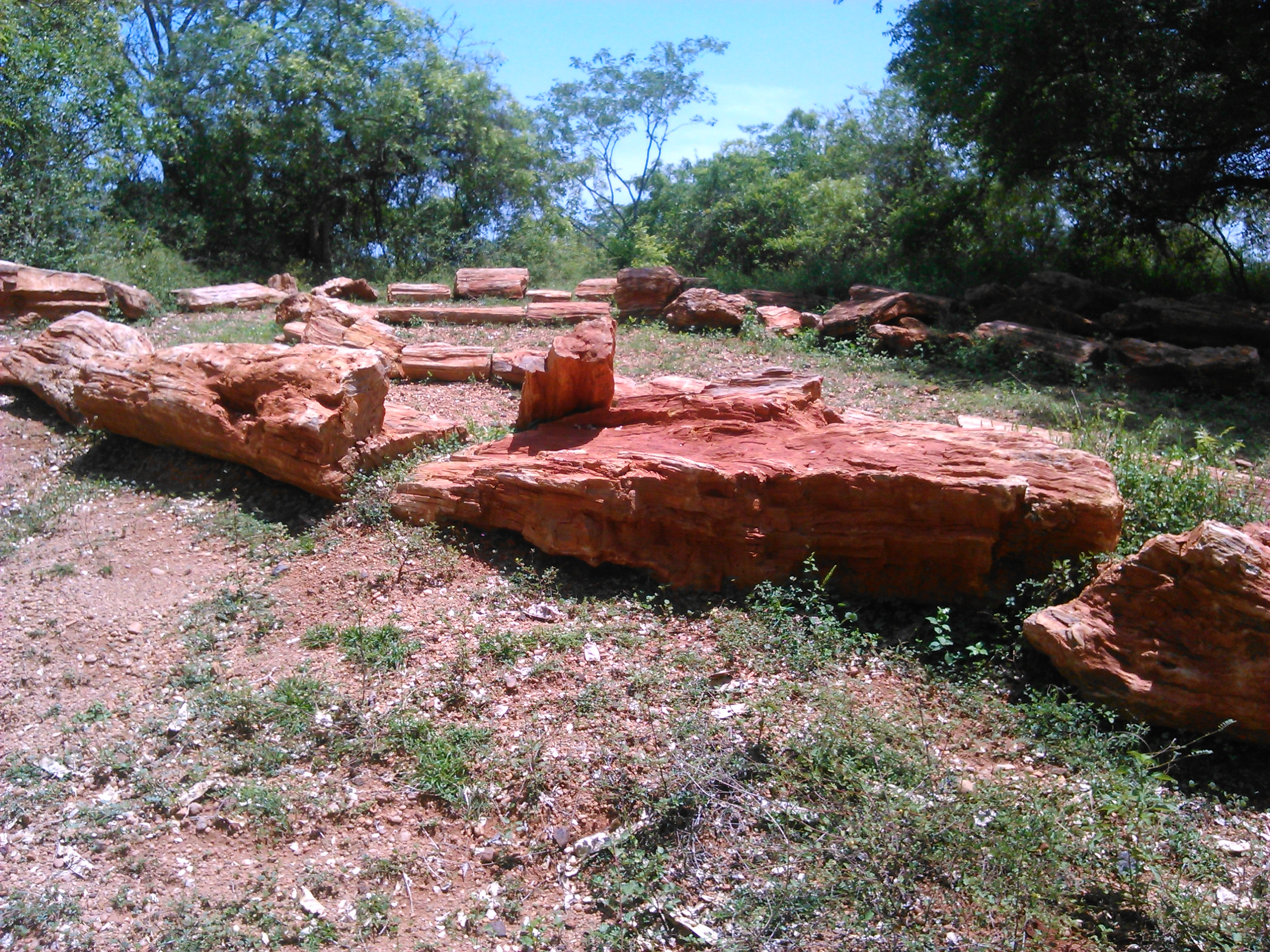 This is found in national fossil wood park at tiruvakkarai village at villupuram district